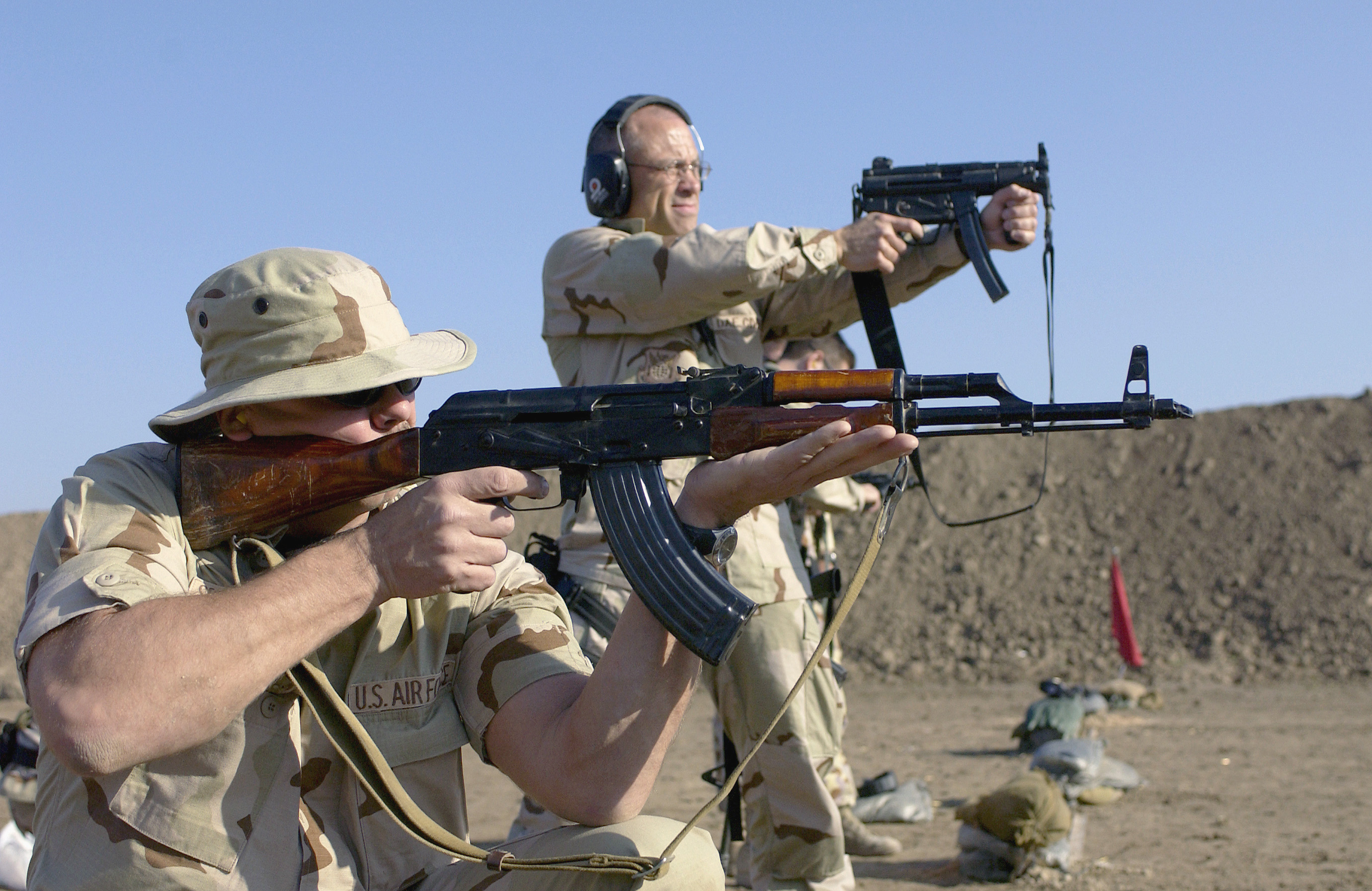 A Range Officer (rear), firing a Heckler and Koch 9mm MP5K submachine gun, from the Australian Air Traffic Control Detachment, Task Unit 633.4.2, teaches Special Agent (SA) Denny Wood, 447th Office of Special Investigations (OSI), how to fire a 7.62 mm AKM assault rifle at the Baghdad International Airport firing range, Baghdad, Iraq during Operation IRAQI FREEDOM. Location: BAGHDAD INTERNATIONAL AIRPORT, BAGHDAD IRAQ (IRQ)